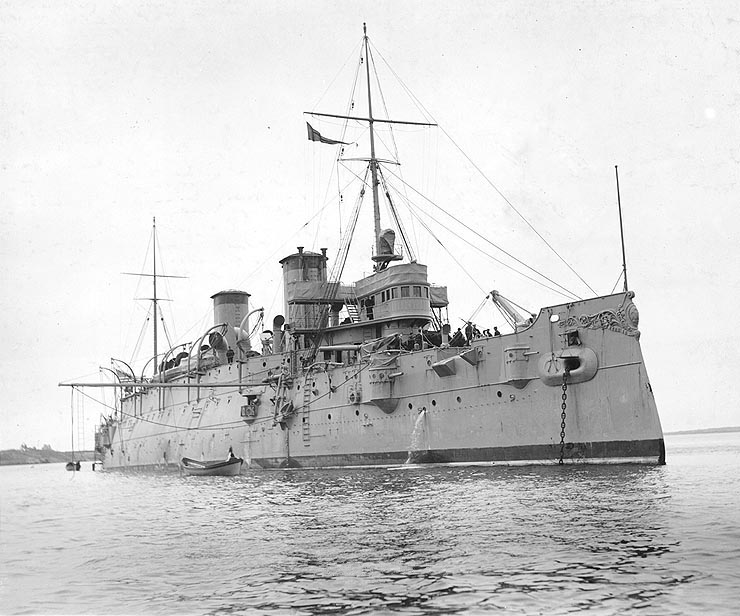 The U.S. Navy armoured cruiser USS Minneapolis at anchor, 1898.